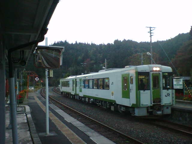 Rikuchuu-Kanzaki Station of the Ōfunato Line. Ichinoseki, Iwate prefecture, Japan.